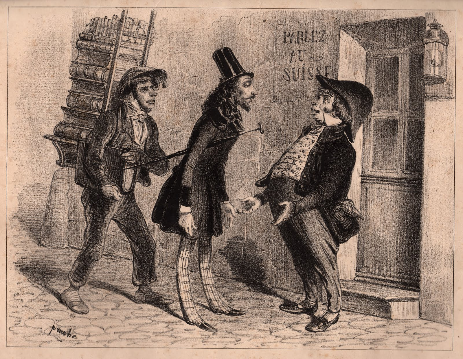 Gravure signée "Pruche" (cir. 1840's), publiée dans Le Charivari ou La Caricature